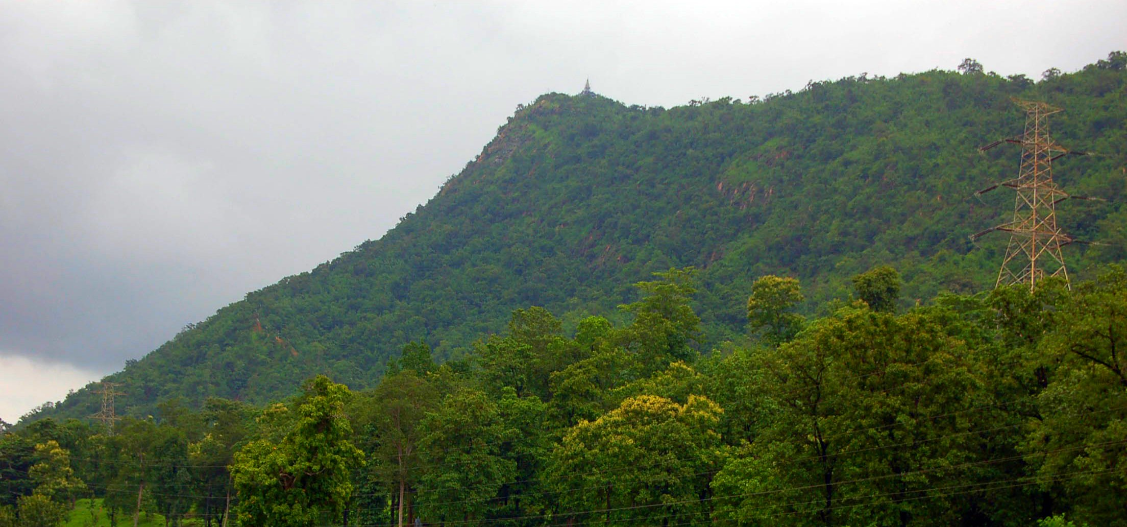 THIS IS THE MOUNT OF SATPUDA.